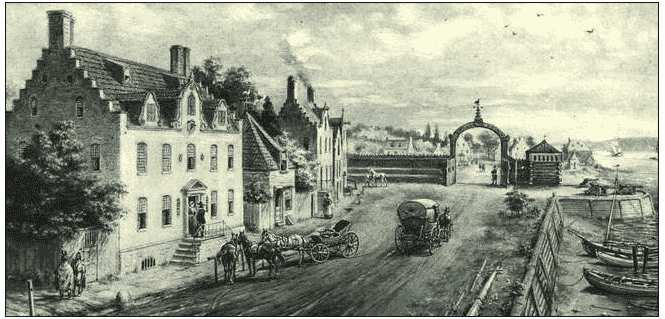 New York, Wall Street and Captain Kidd's house 1691